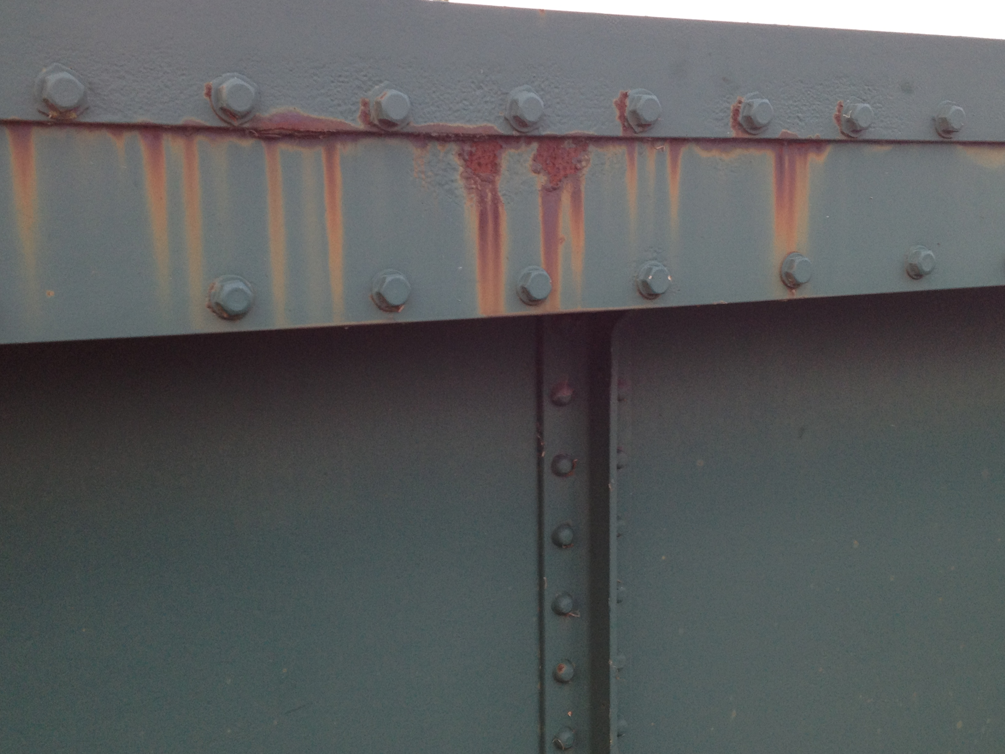 Side view Crow Hall Railway Bridge north of Preston Lancs corroding - general view from Newsham Hall Lane